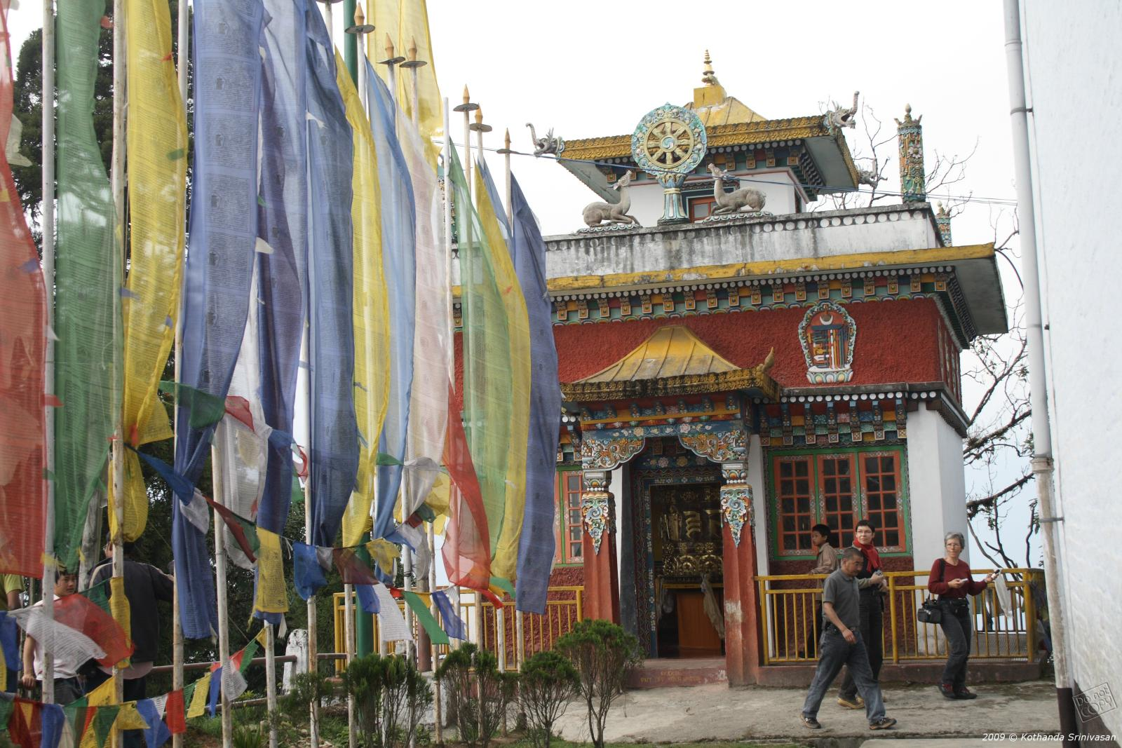 Main Shrine of Pemangytse Gompa with prayer flags